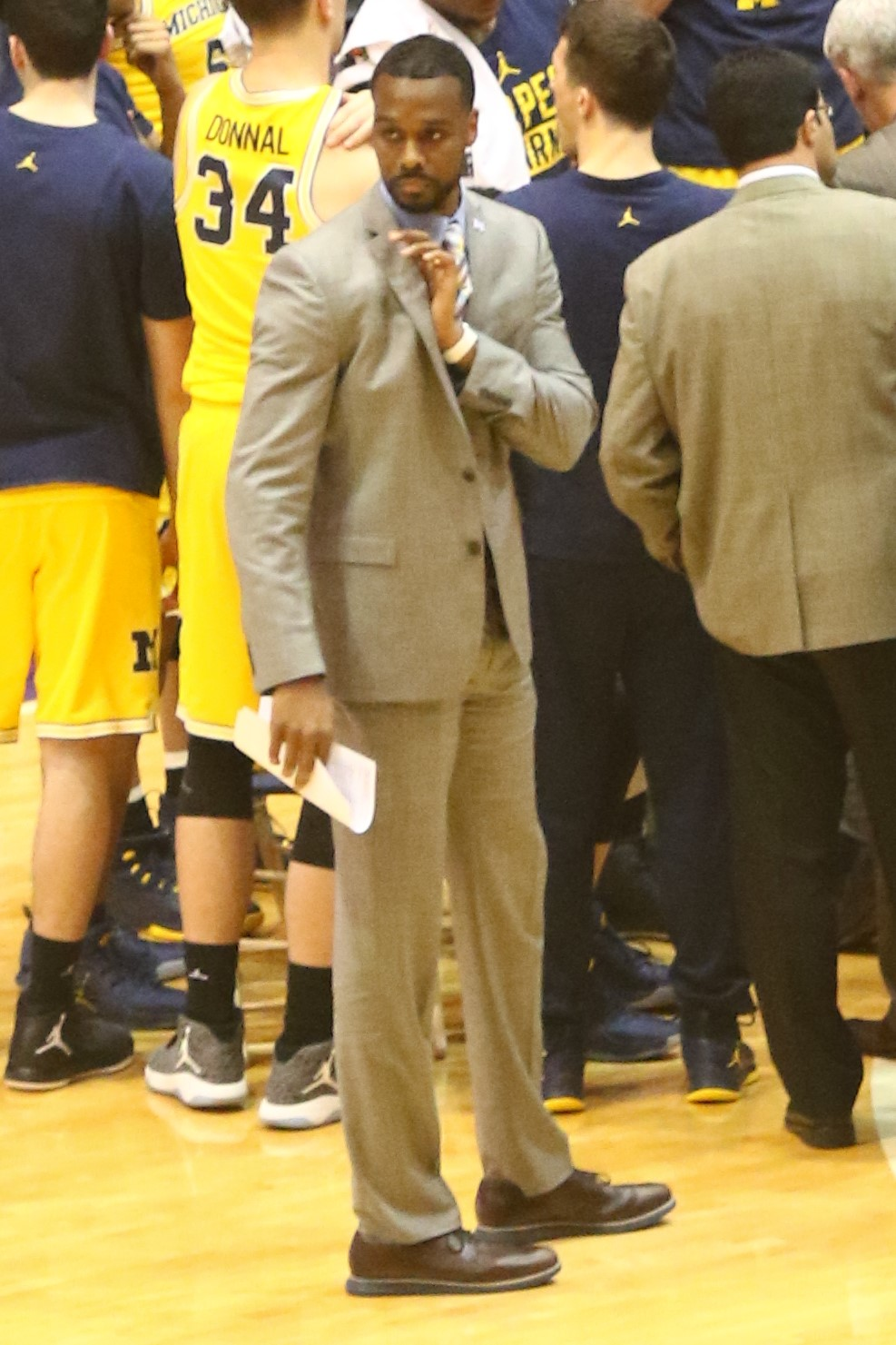 w:2016–17 Michigan Wolverines men's basketball team huddle with Chris Hunter looking away